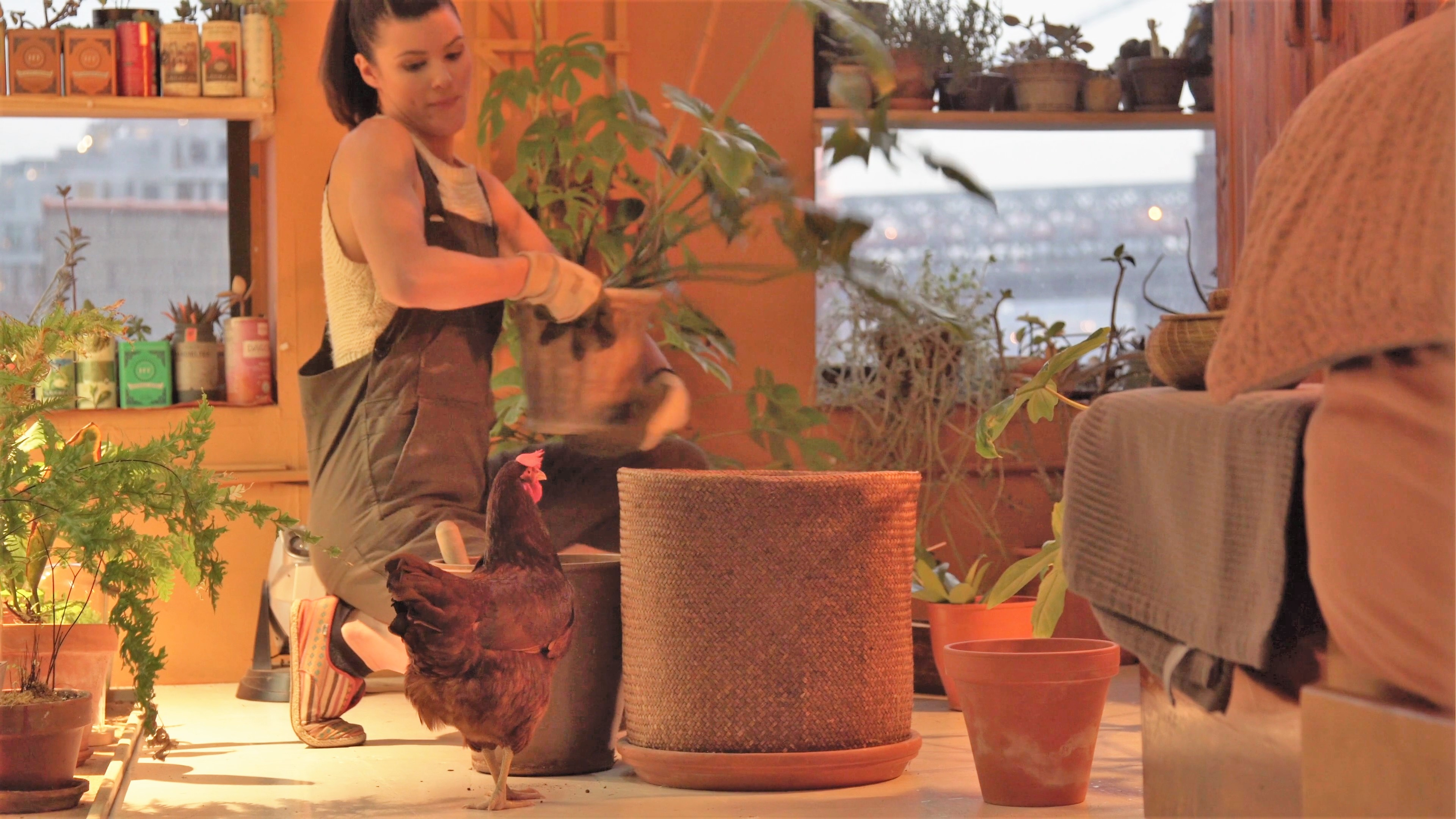 American environmentalist, model, and author Summer Rayne Oakes transplanting a potted plant in her home with her hen Kippee, in 2018, as part of her Houseplant Masterclass. The Houseplant Masterclass is an online audio-visual course and experience to help you demystify plant care and learn how to have a relationship with your plants. More information here: kck.st/2G7dnbj